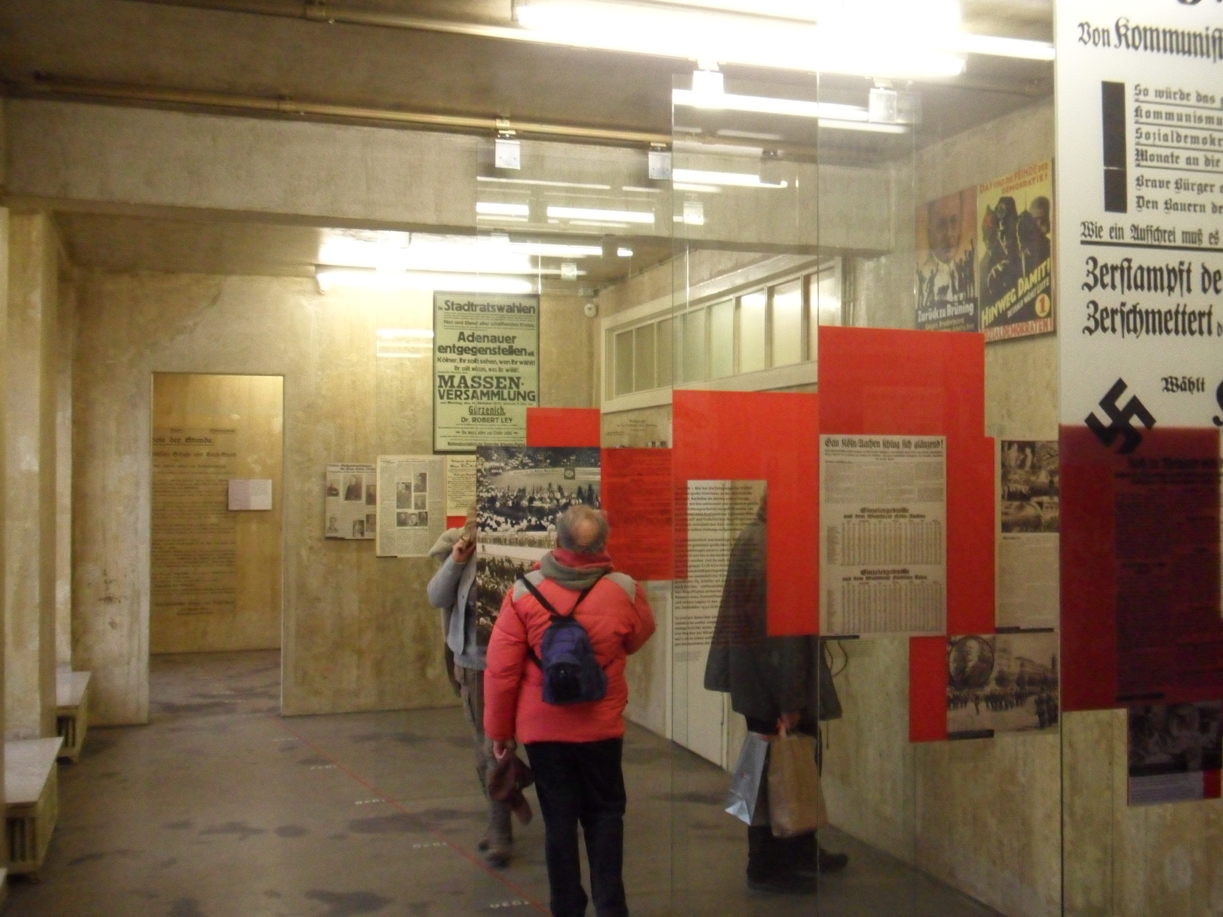 EL-DE House in Cologne (Köln), Germany. From 1933 to 1945 this house was the Gestapo Headquarters in Cologne and is now a museum documenting the Nazis in Cologne and in Germany as a whole. This photo shows one of the upper floors housing the museum.